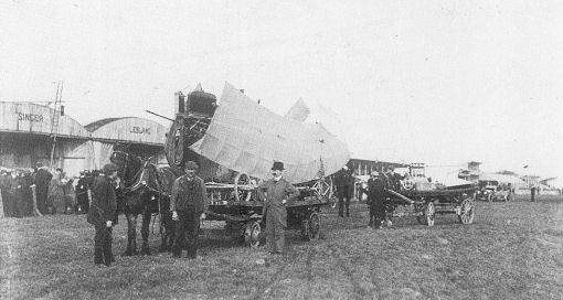 Humphreys Monoplane No. 2 at 1910 Blackpool Meeting